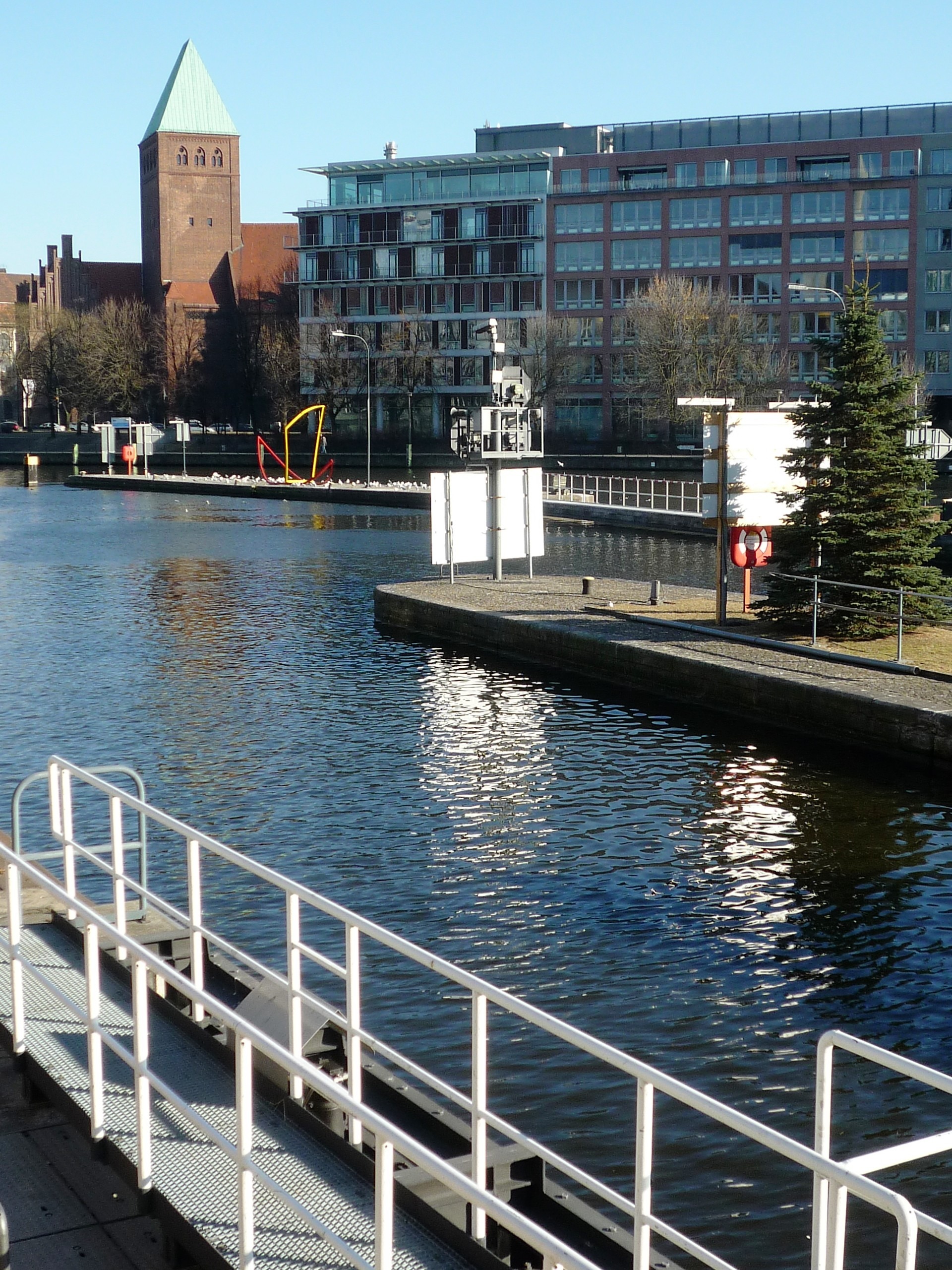 River Spree at the "Muehlendammschleuse" (-sluice) in Berlin (Germany). Background left: The "Märkisches Museum".